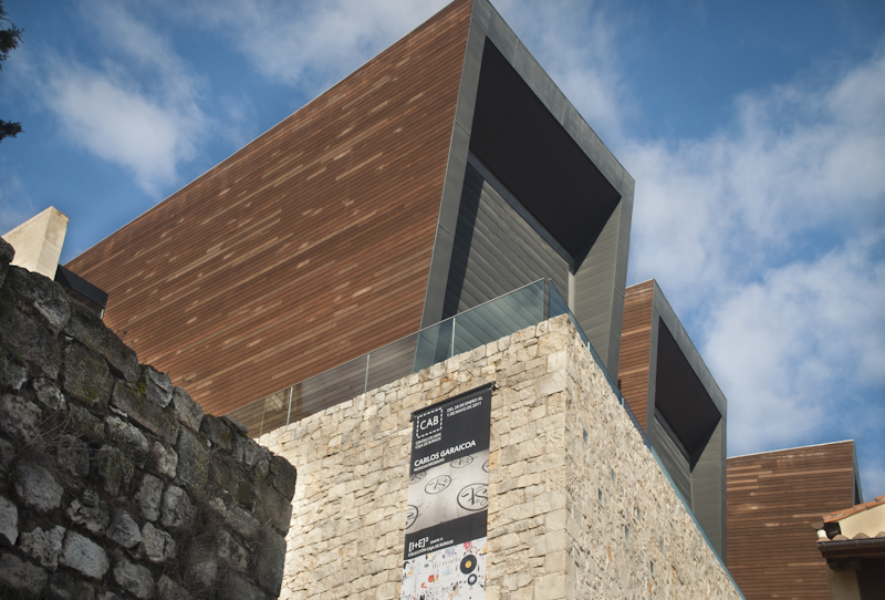 CAB - Centro de Arte Caja de Burgos